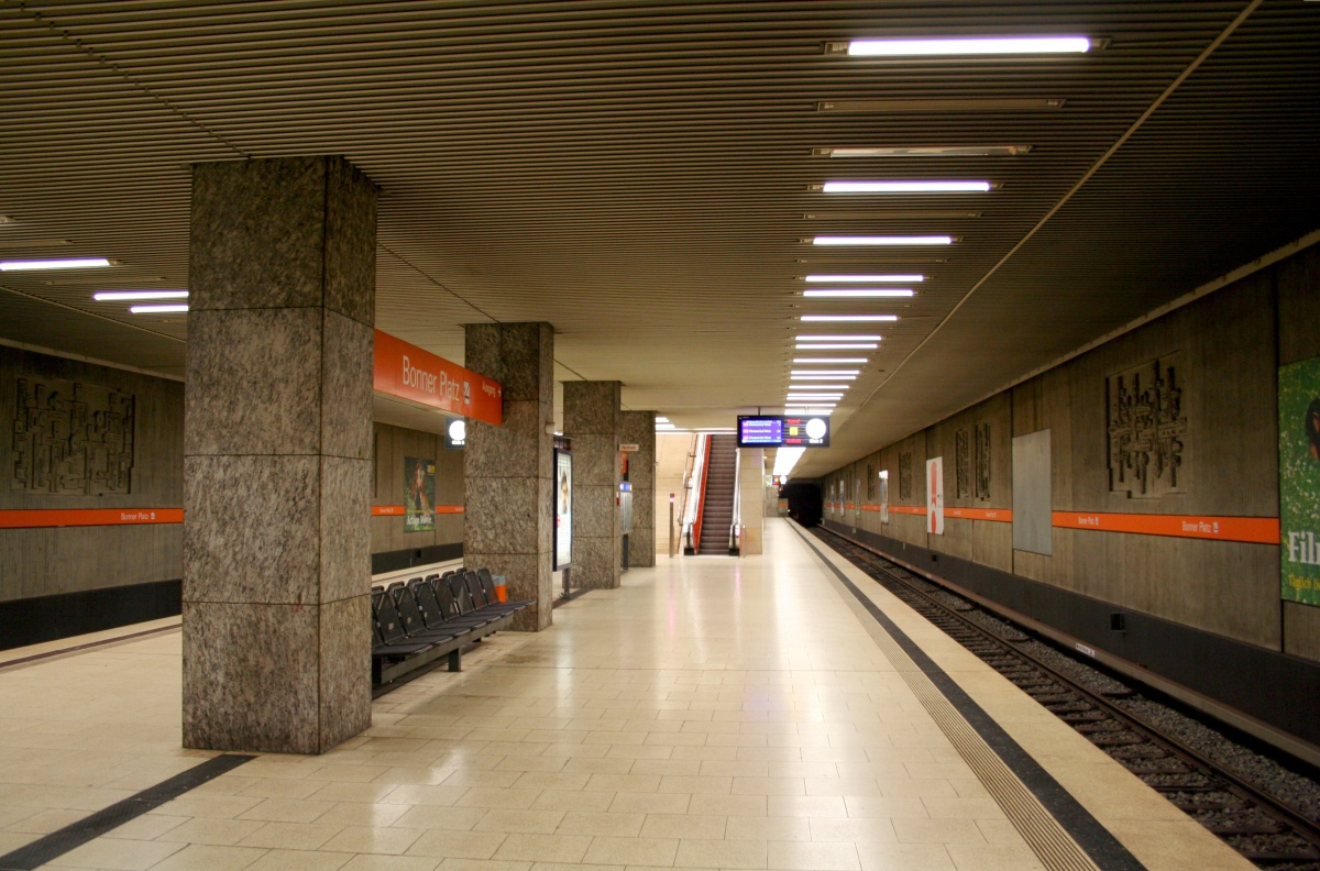 Munich subway station Bonner Platz